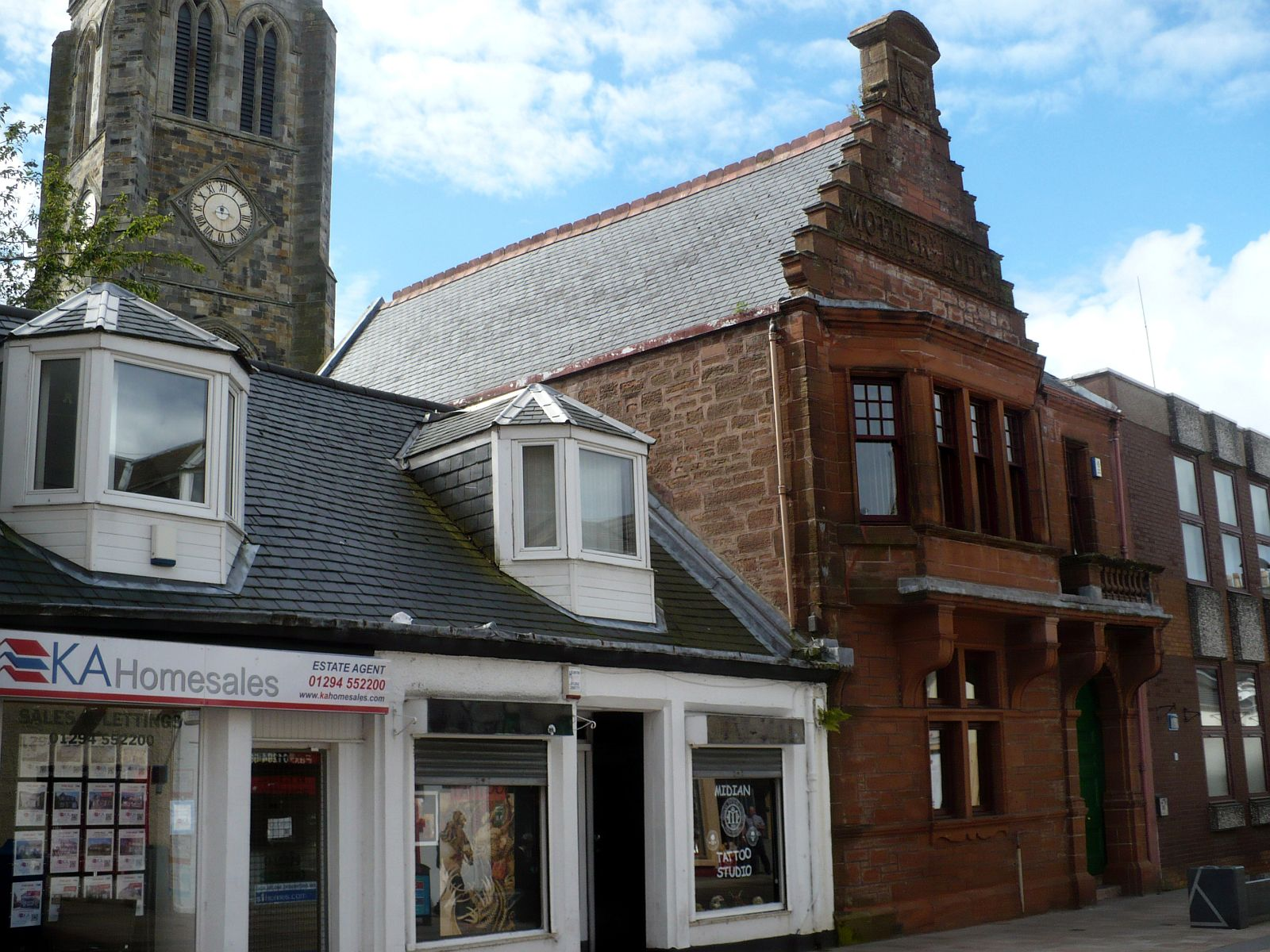 Mother Lodge building in Kilwinning, North Ayrshire, Scotland